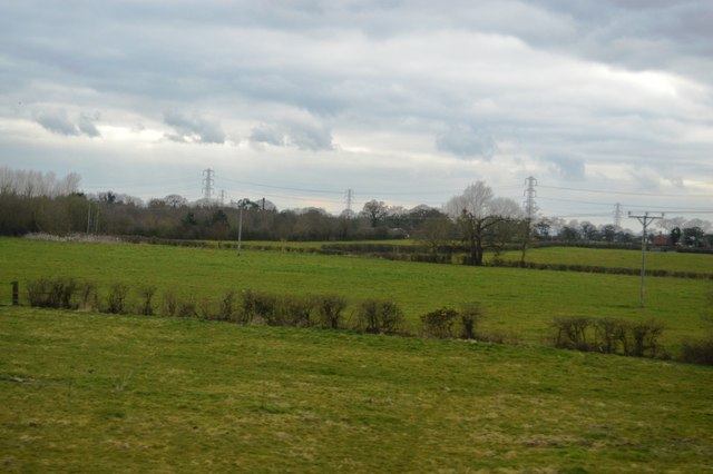 Barrow's Green